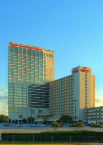 1,014 room Sheraton Four Seasons Greensboro - Joseph S Koury Convention Center